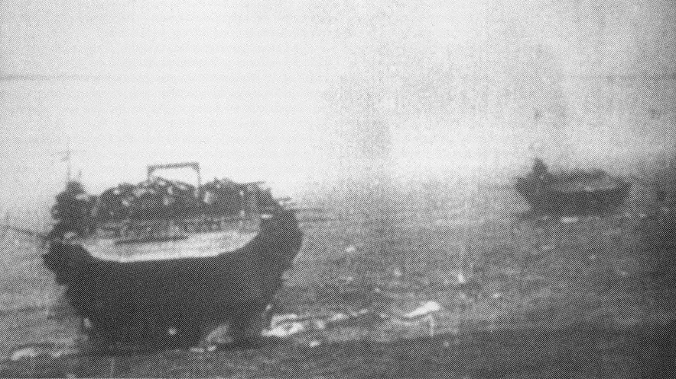 Imperial Japanese Navy aircraft carriers Kaga (foreground) and Zuikaku (background) head towards Hawaii through heavy seas in November or December 1941 to attack Pearl Harbor.